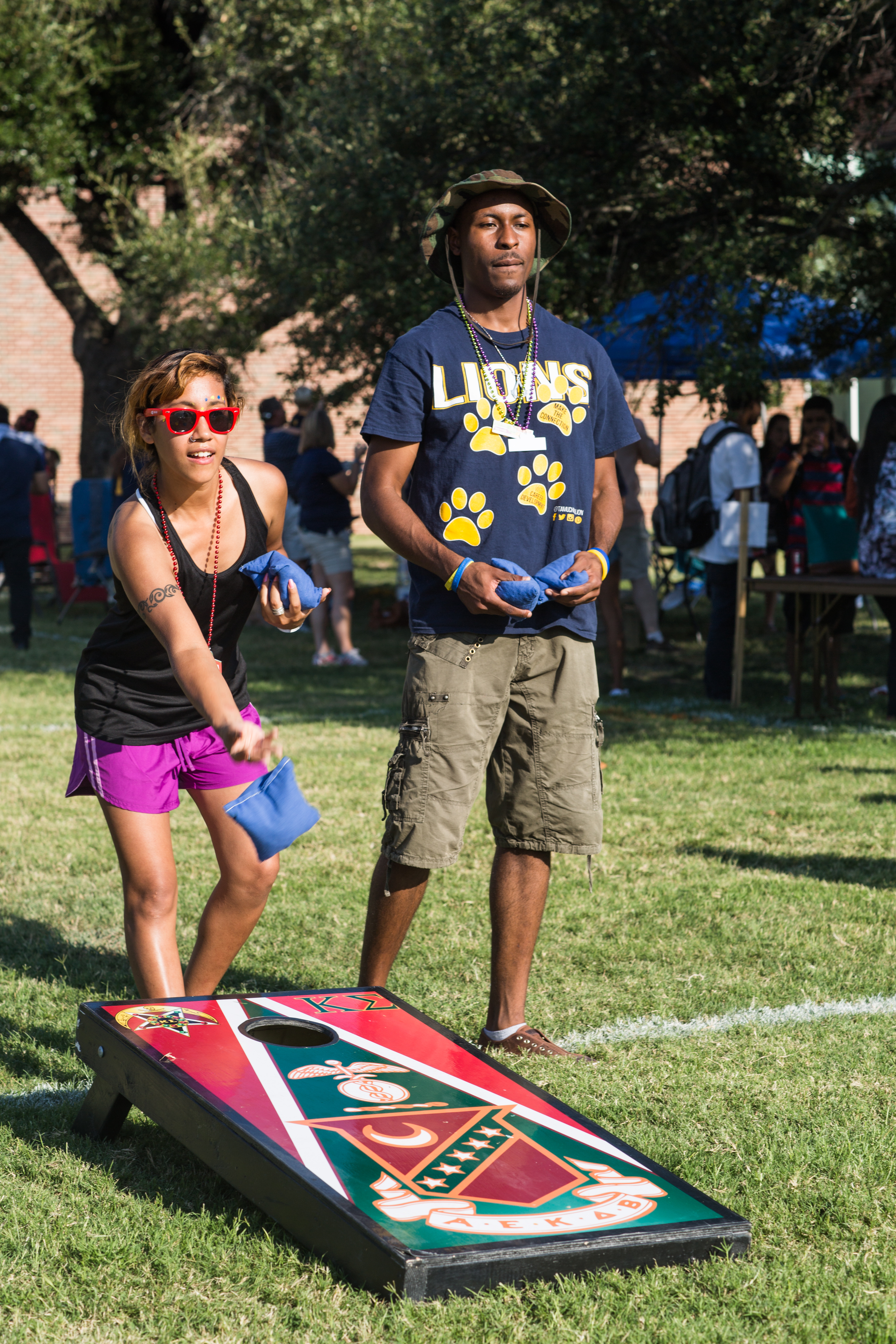 Adams State Grizzlies vs. Texas A&M–Commerce Lions